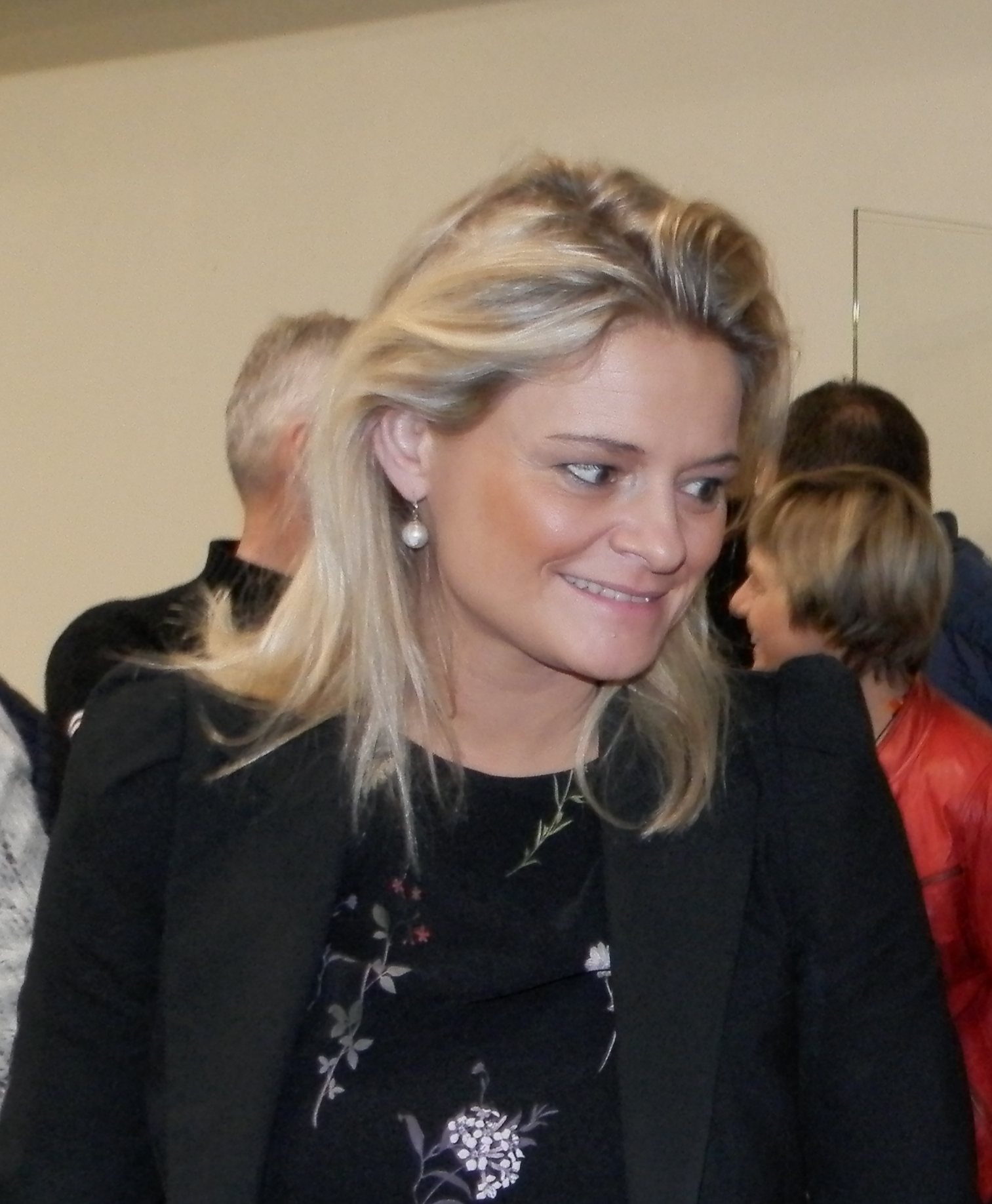 Annika Olsen is a Faroese politician. This photo was taken at the opening ceremony of Páls Høll, the first 50-meter swimming pool in the Faroe Islands. Olsen was a swimmer herself when she was a child and teenager.